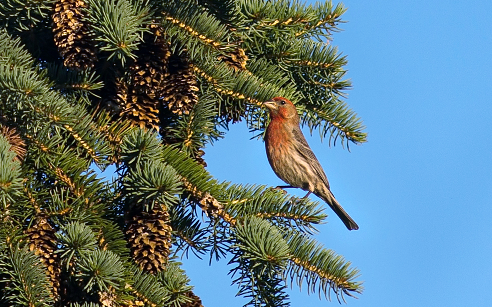 A male House Finch Haemorhous mexicanus sitting in a Blue Spruce Picea pungens.